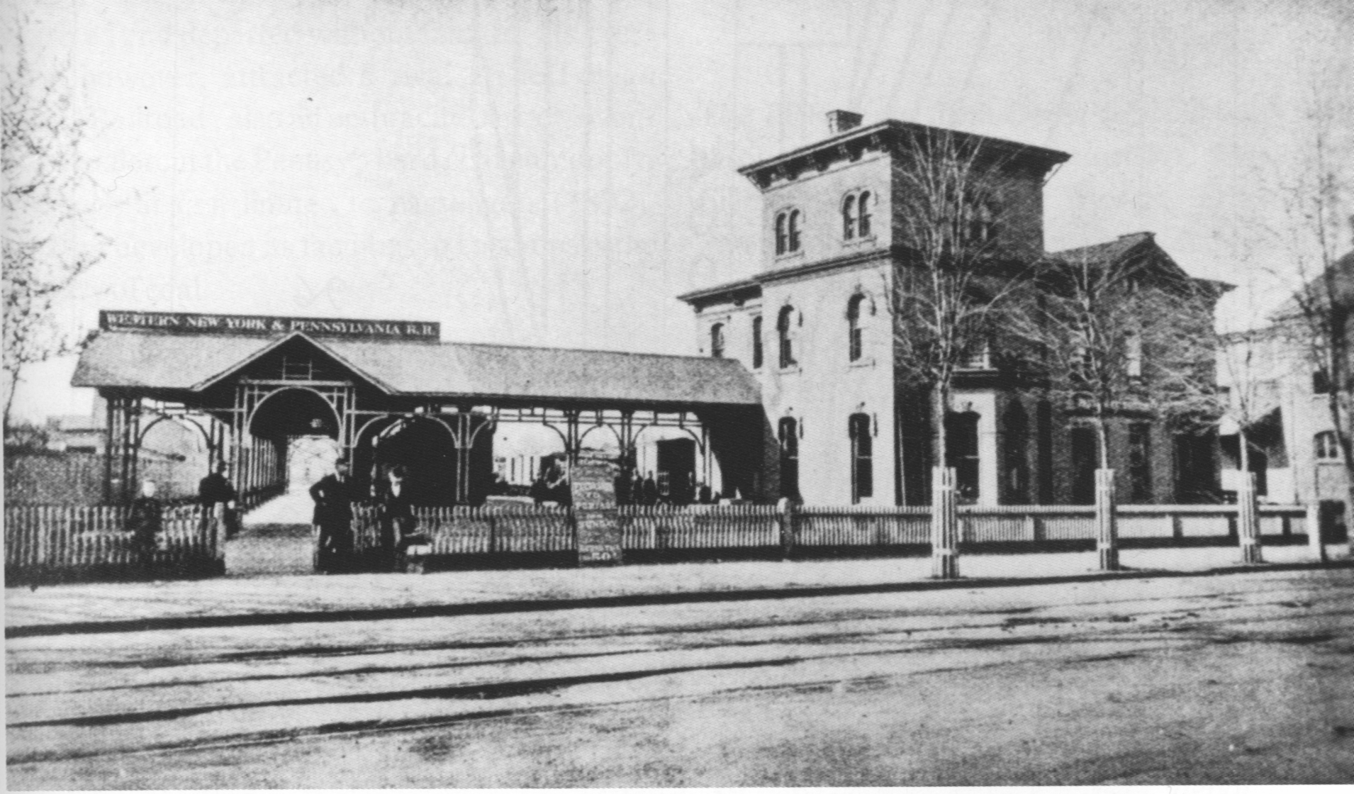 Western New York and Pennsylvania Railroad station in Rochester, circa 1900